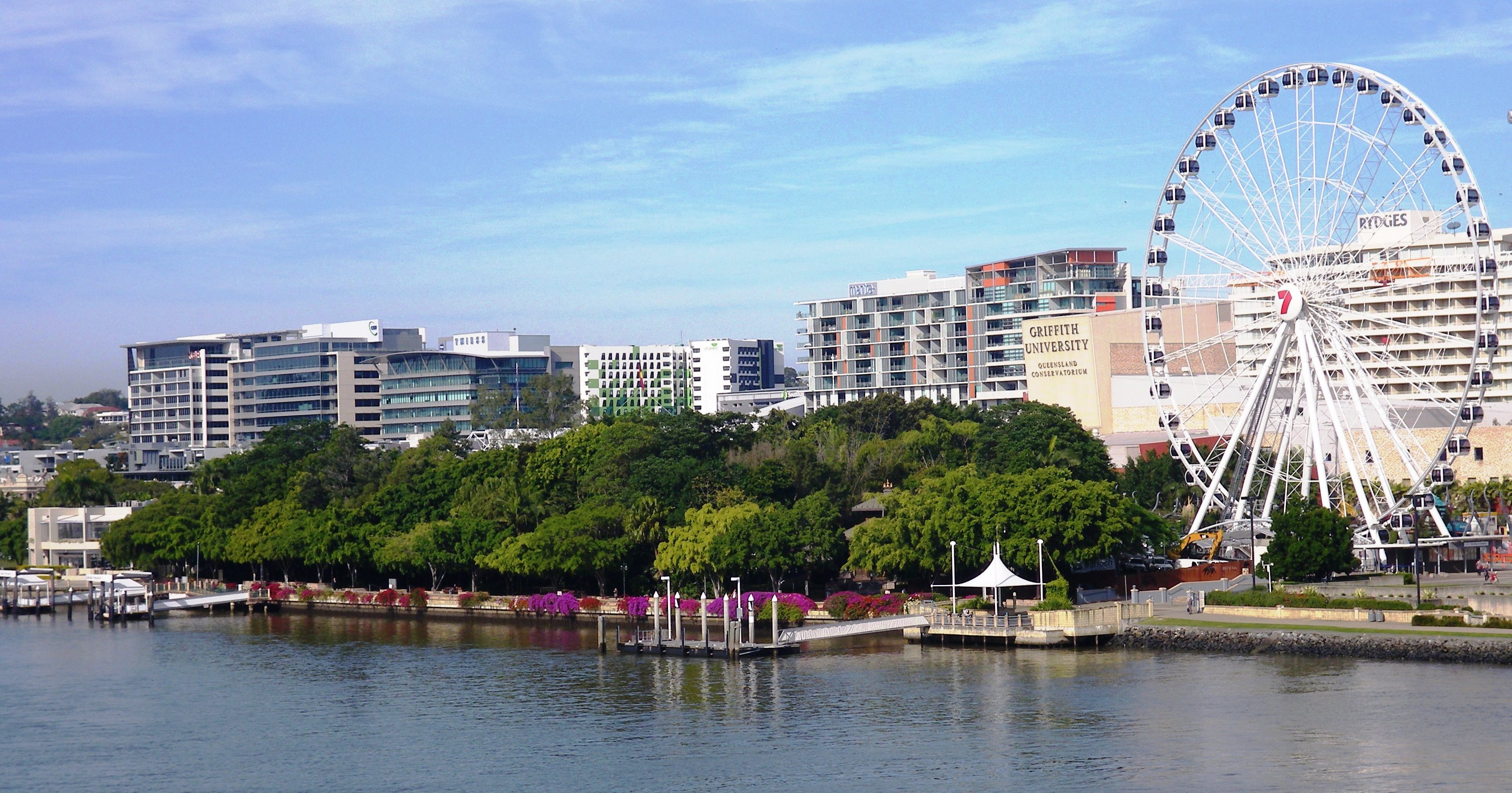 South Bank Parklands, opened in 1992 on the Expo 88 site, is the city’s playground with landscaped parkland along a 1-kilometre boardwalk, swimming lagoons and beach, rainforest, entertainment venue, restaurants, cafes, shops and weekend markets. In former times the riverfront, once a hive of activity with wharves, industries, boarding houses and a fish market, had declined by the 1970s.